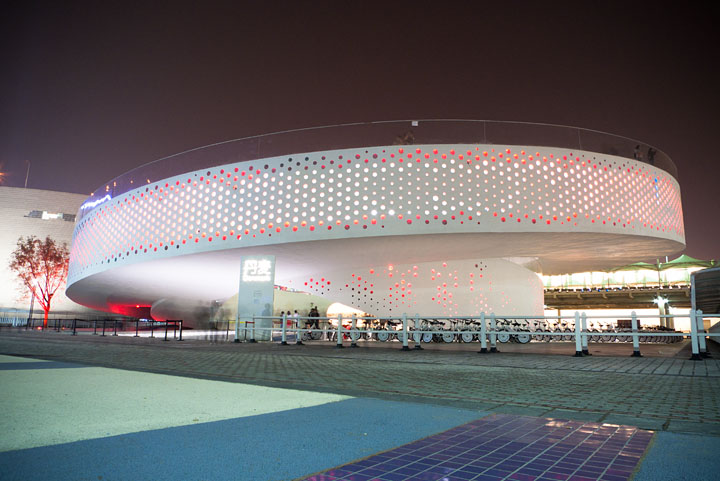 Denmark Pavilion of Expo 2010